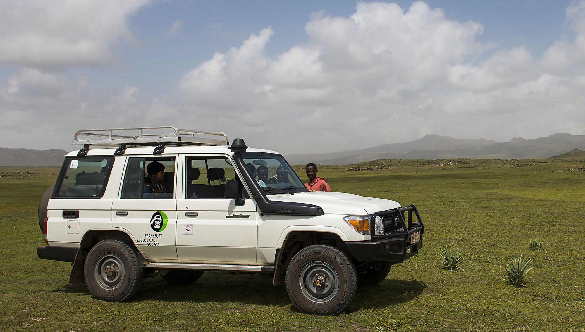 Car of Frankfurt Zoological Society in the Bale Mountains of Ethiopia.